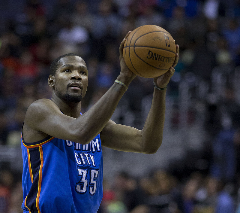 Kevin Durant Free Throw OKC vs Wizard 2014 February